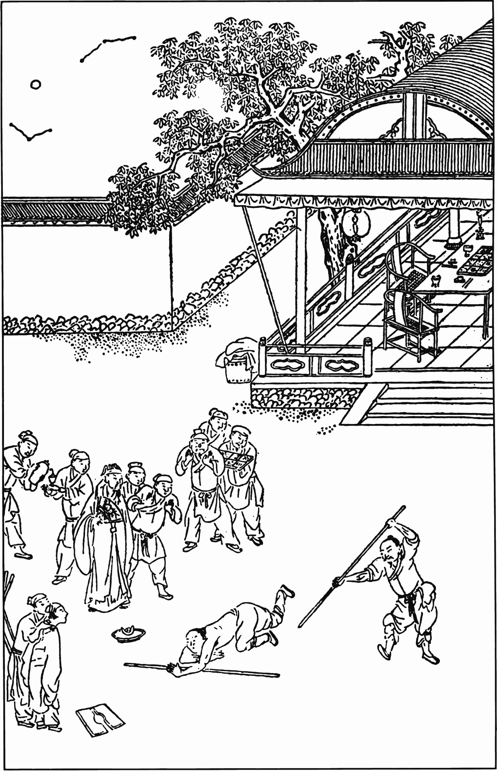 Illustration of ancient Chinese book “Outlaws of the Marsh”